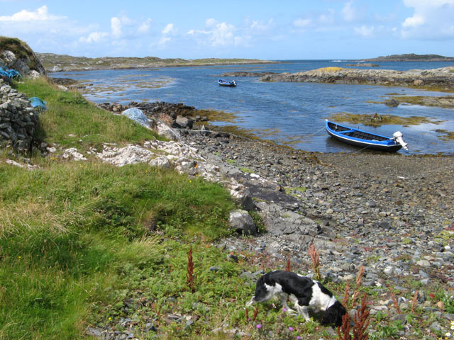 Beach with boats A sheltered bay opposite Golam Island. A string of small islands make an enclosed bay at the western end of Lettermullan, an ideal spot for mooring boats.